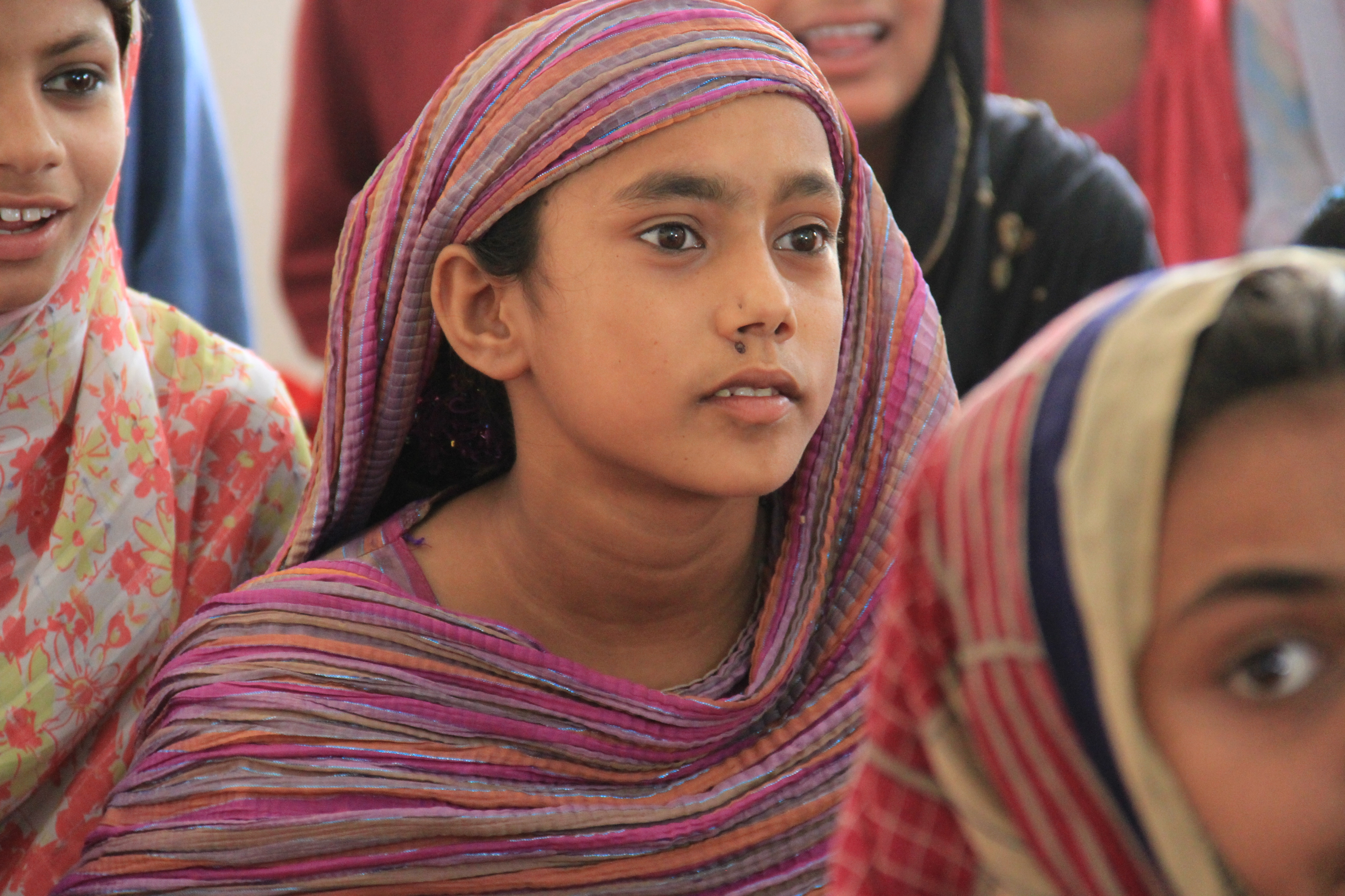 Daddla Junego, 11 years old, lives in Garhi Haleem village in Sindh, Pakistan, with her mother and 12 other family members in a one room house. She goes to the local school, one of many to have been recently repaired thanks to UK aid following last year's devasting floods. Temperatures in Garhi Haleem regularly reach up to 52 degree celsius in the summer, cracking the land. Daddla’s school was flooded and then became used as a temporary shelter with up to 50 families living there for several months, causing major damage to the building. Daddla explains what happened to her: “We lived in a camp near Sukkur airport for two months after the floods. I don’t have a father, he’s dead, so my brother used to get food for us. I won’t ever forget those chaotic days when we lived in the camp. "I like very much having drinking water, toilets, and fans at school now. Before, we had none of these. It’s very hot here, so we’re very happy to have drinking water and to get education under the fans. My favourite subject is Sindhi and I want to be a teacher when I grow up.” An estimated five million school aged children across Pakistan were affected by the floods, with more than 10,000 schools damaged or destroyed by the devastating floods that hit Pakistan last year. Hundreds more were used for months as emergency housing for people who lost their homes in the floods. Daddla's school is one of 2,000 schools across the flood affected areas which have been repaired thanks to UK aid. To find out more about how the UK is helping in Pakistan, please visit: Image credit: Vicki Francis/Department for International Development Terms of use This image is posted under a Creative Commons - Attribution Licence , in accordance with the Open Government Licence . You are free to embed, download or otherwise re-use it, as long as you credit the source as 'Vicki Francis/Department for International Development'.